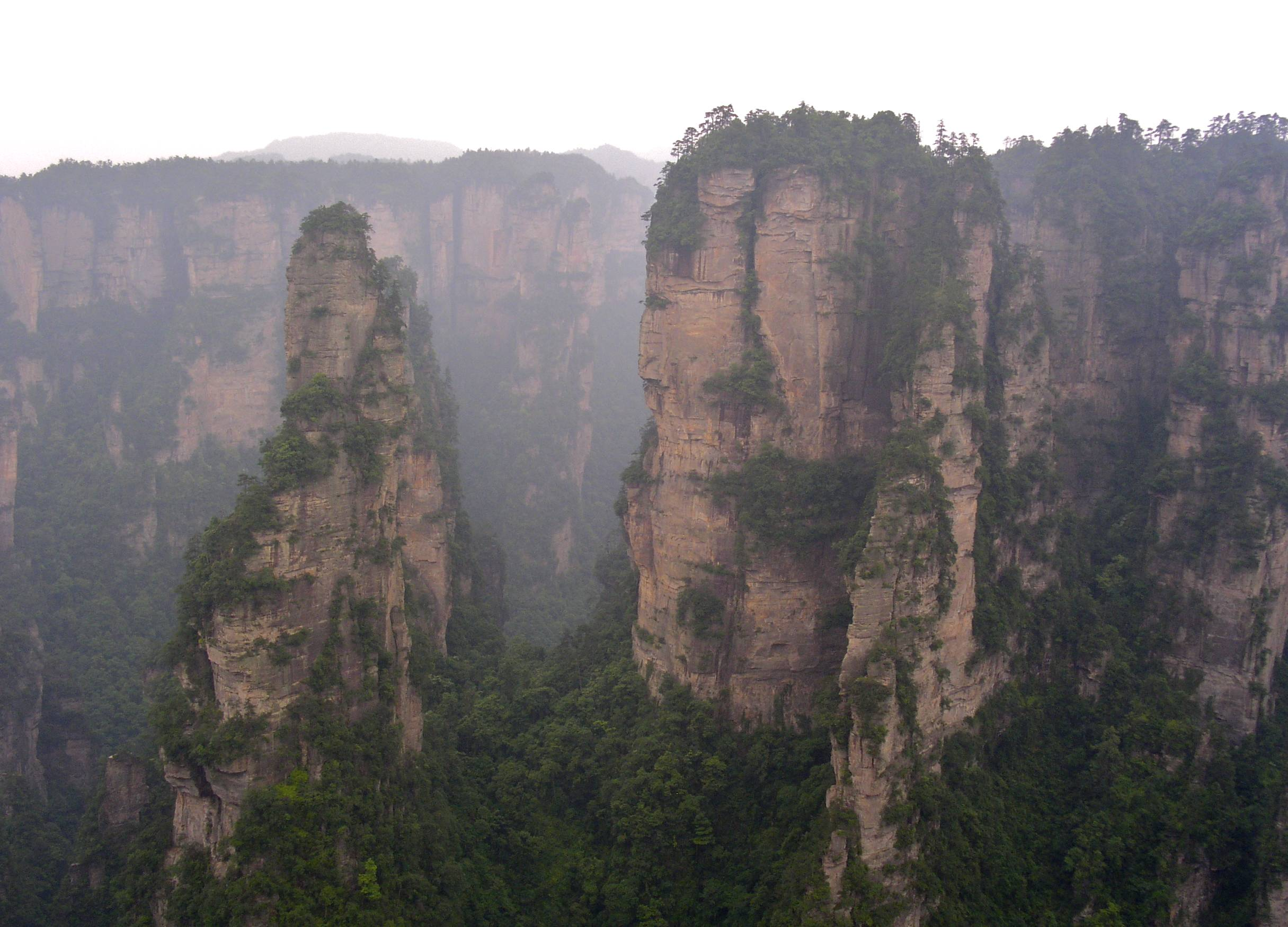 Photograph of Yangjiajie in Zhangjiajie National Forest Park in China.